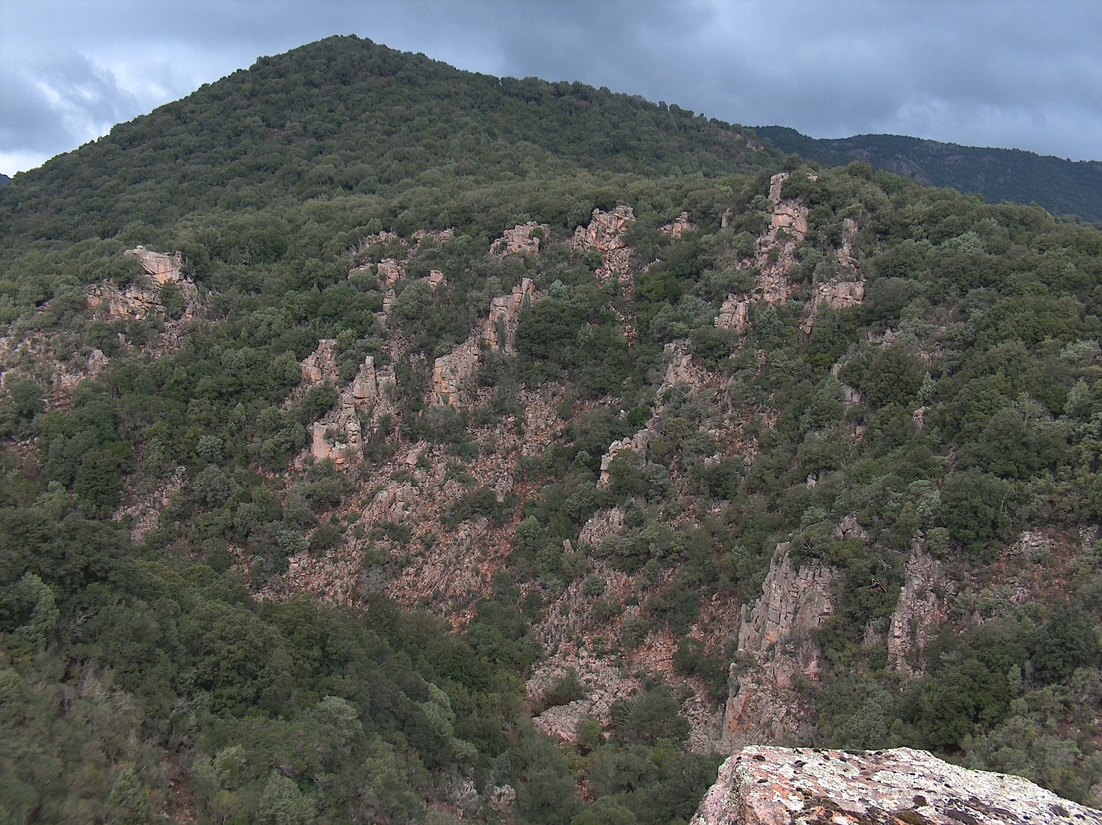 Rocks and Mediterranean shrubland on the left side of the Gutturu Mannu gorge